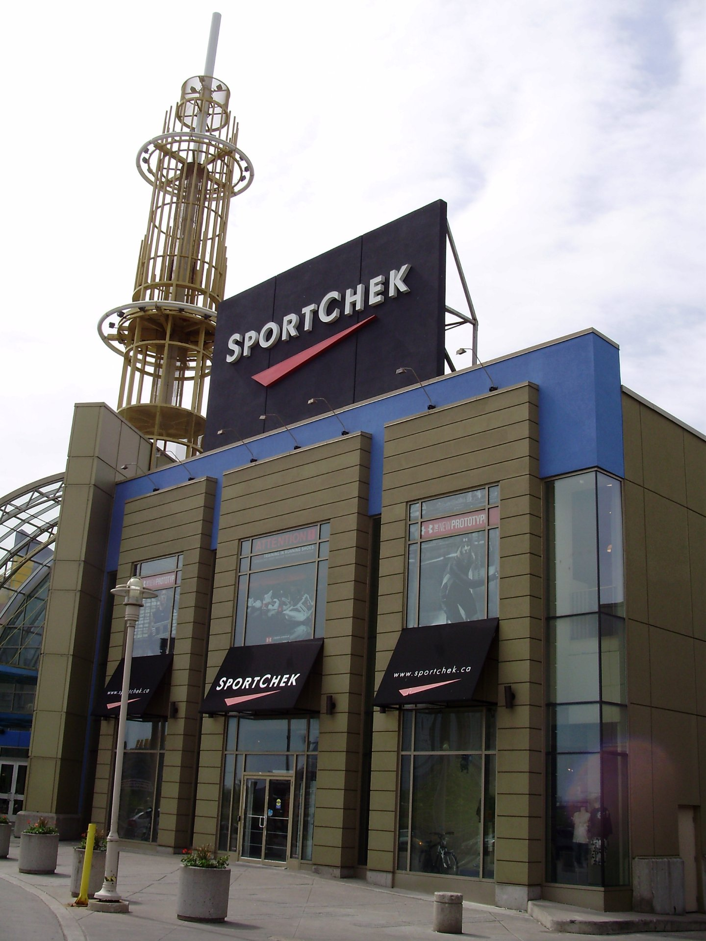 The exterior facade of a SportChek store in the Scarborough Town Centre in Scarborough, Canada.